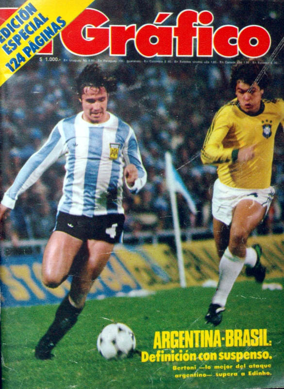 Daniel Bertoni (Argentina) carrying the ball while Edinho runs behind him.